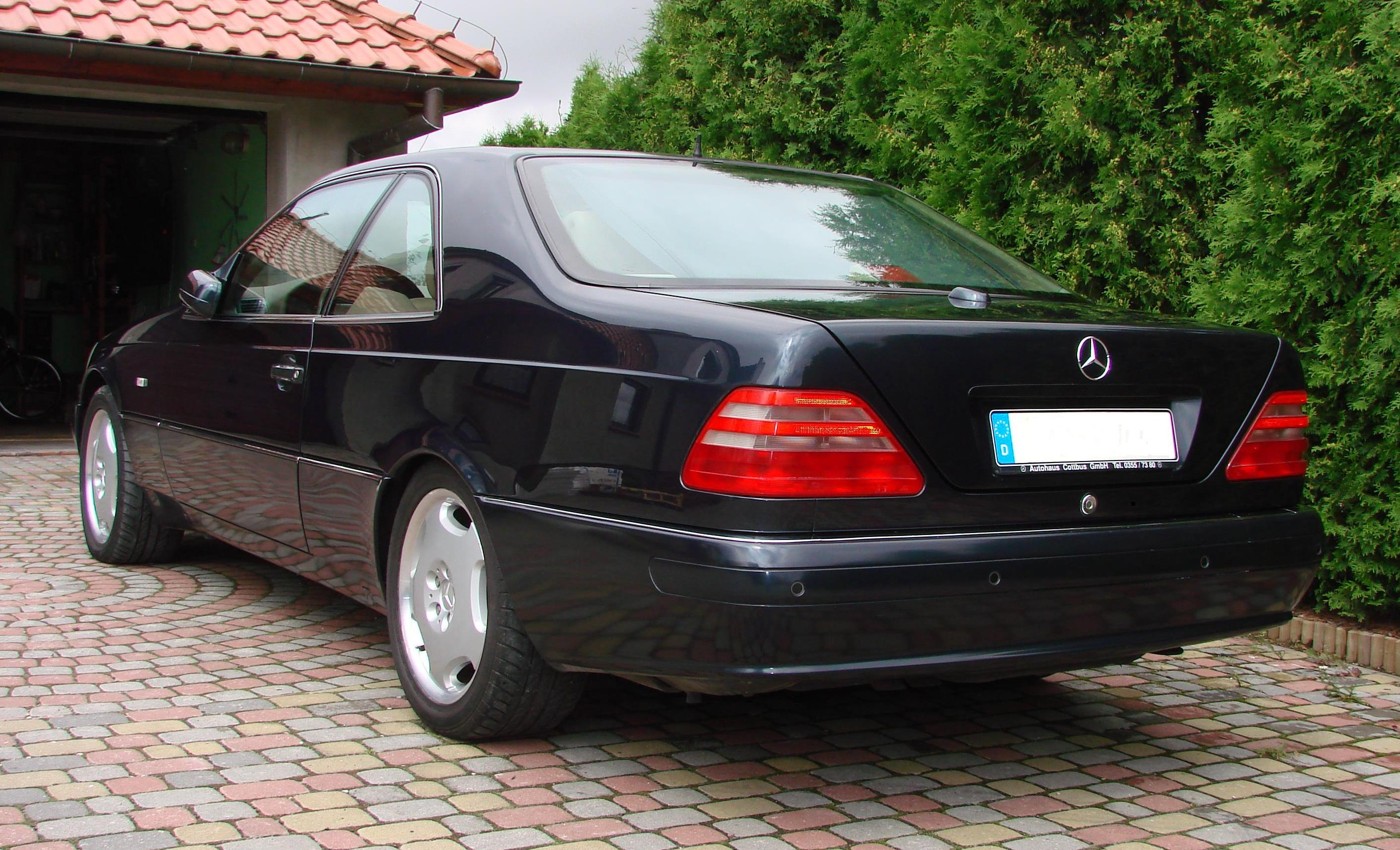 Mercedes-Benz CL 500 in Wytrębowice (Poland)